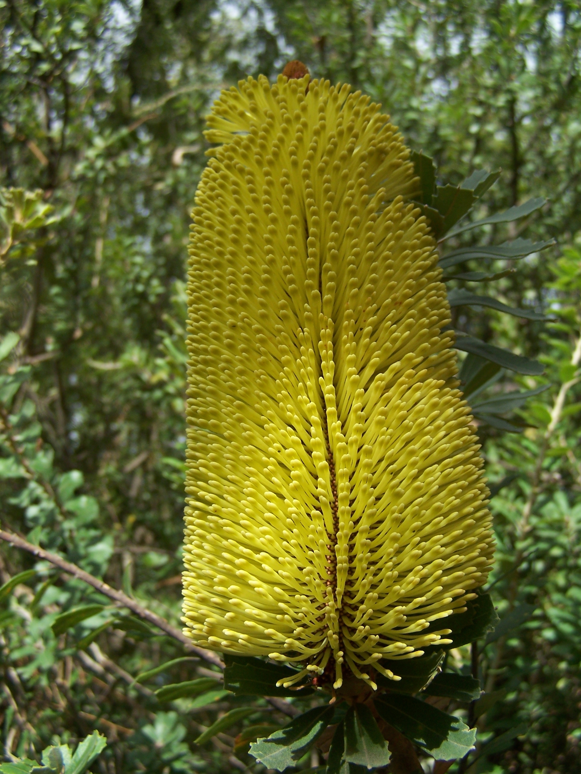 Banksia plants, currently flowering in the Banksia garden in Kings Park Banksia praemorsa